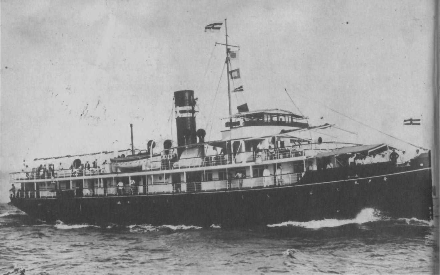 O.S.K. Line "Ondo Maru", Ship of the diesel engine was commissioned for the first time in Japan.